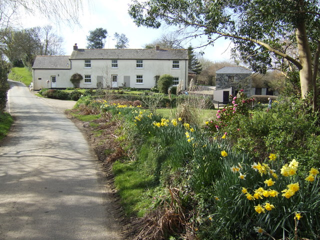 Tregidden The House was possibly a mill once, given its position.